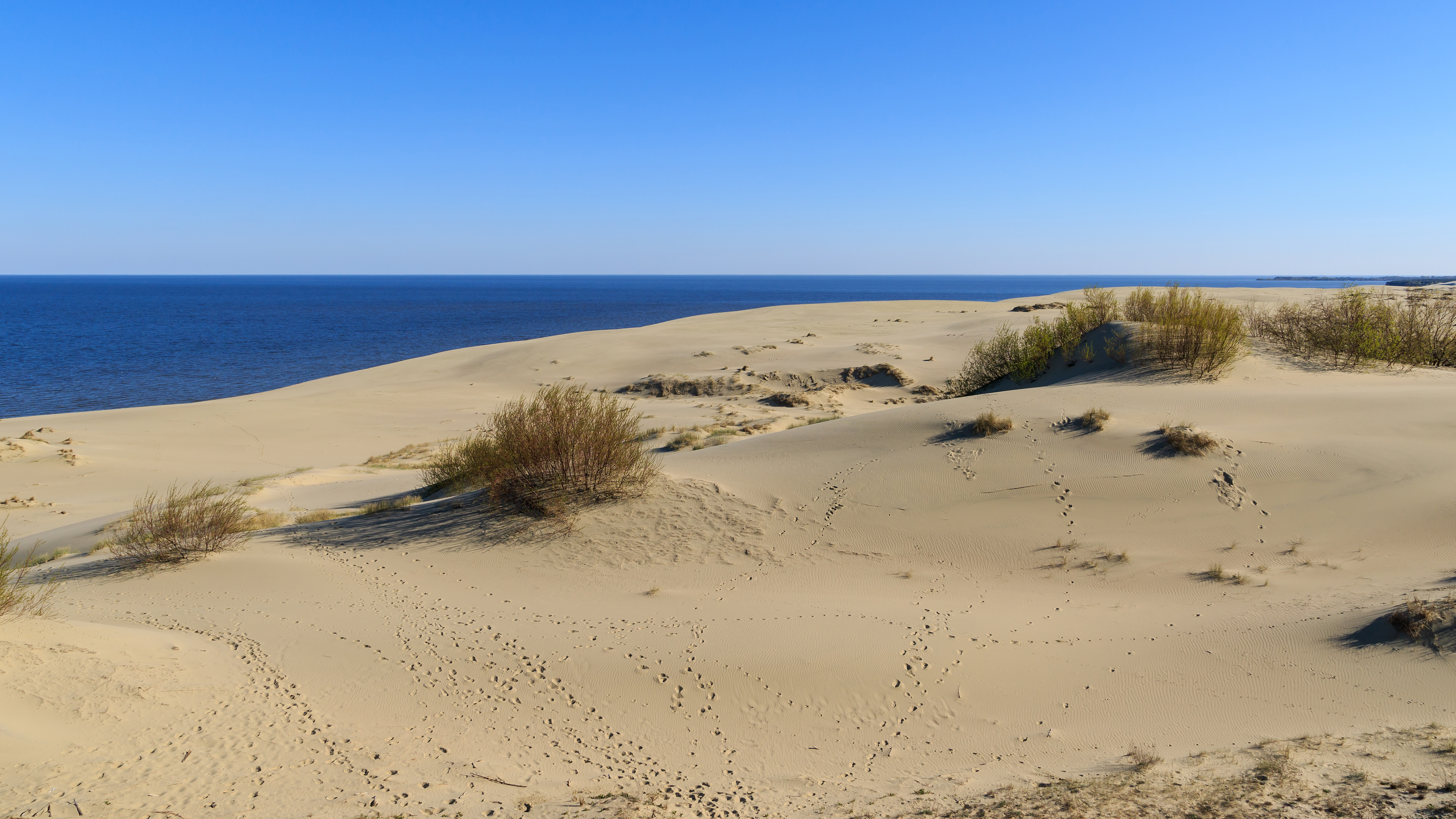 Curonian Spit in Kaliningrad Oblast (Russia). Epha Dune.